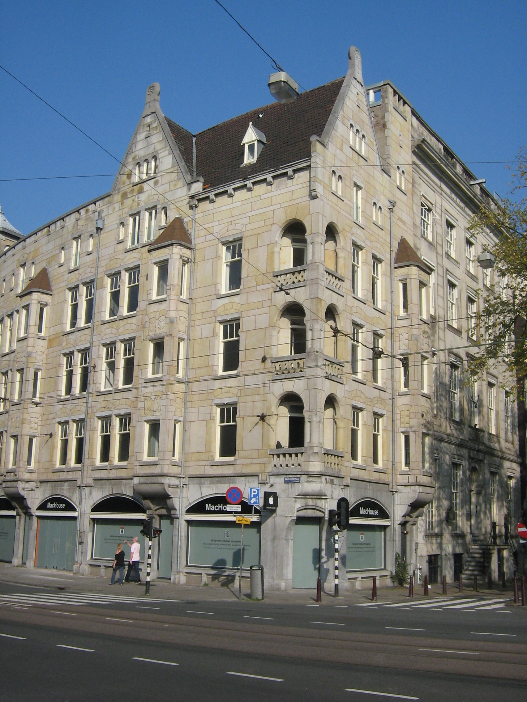 Late 19th century building at 184 Herengracht and 30 and 34 Raadhuisstraat, Amsterdam, the Netherlands, seen from the southeast. The building is situated at the intersection of Herengracht (bottom left to top right in this photo) and Raadhuisstraat (top left to bottom right). This is a national monument registered as object 1768. At the time of the photo, the ground floor housed Apple products retailer MacHouse, which at the time was closed for renovation and would later reopen as iAm Store Amsterdam.